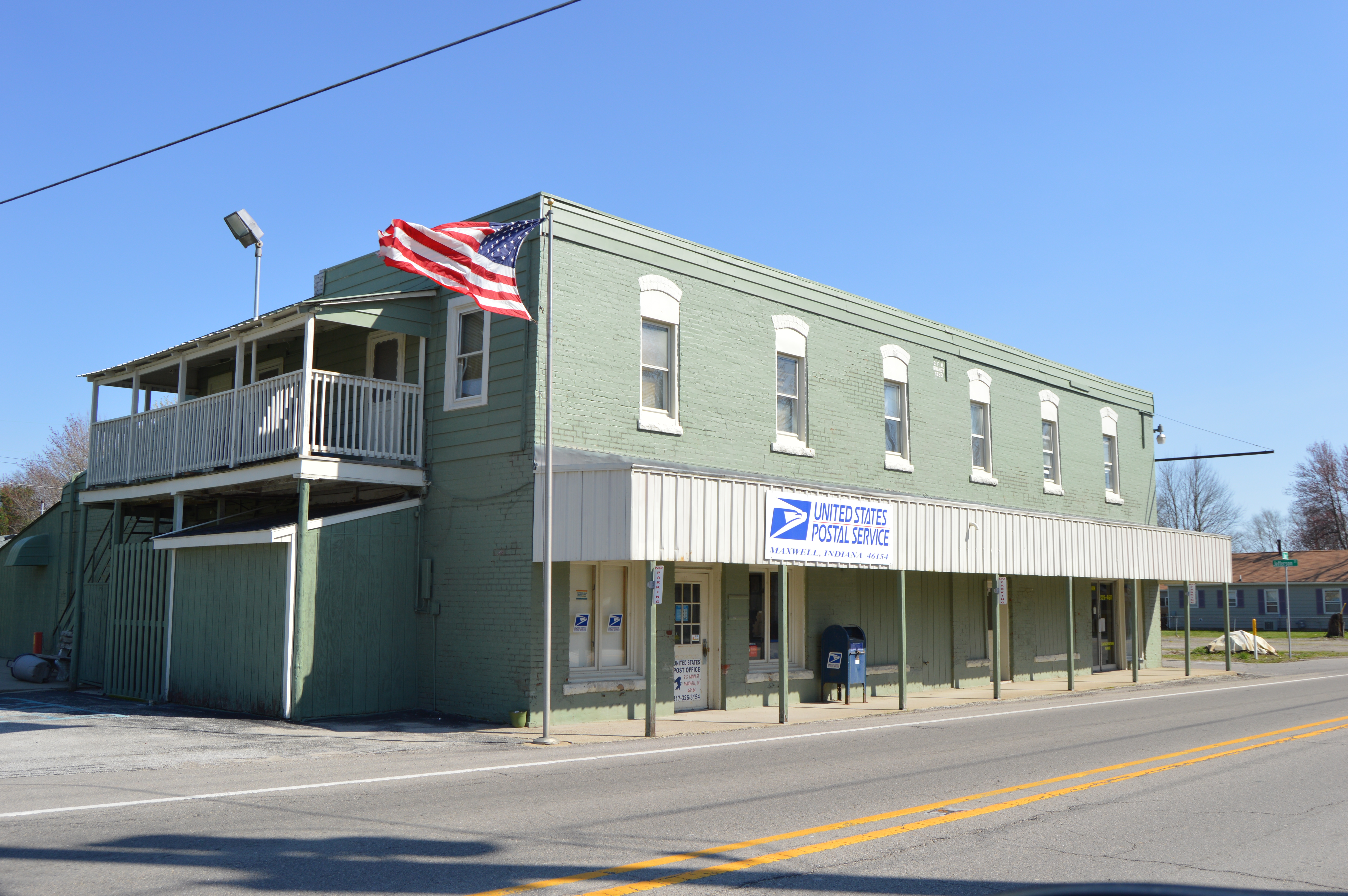 Front and northern side of the Maxwell Post Office, located on the eastern side of State Road 9 in Maxwell, Indiana, United States.